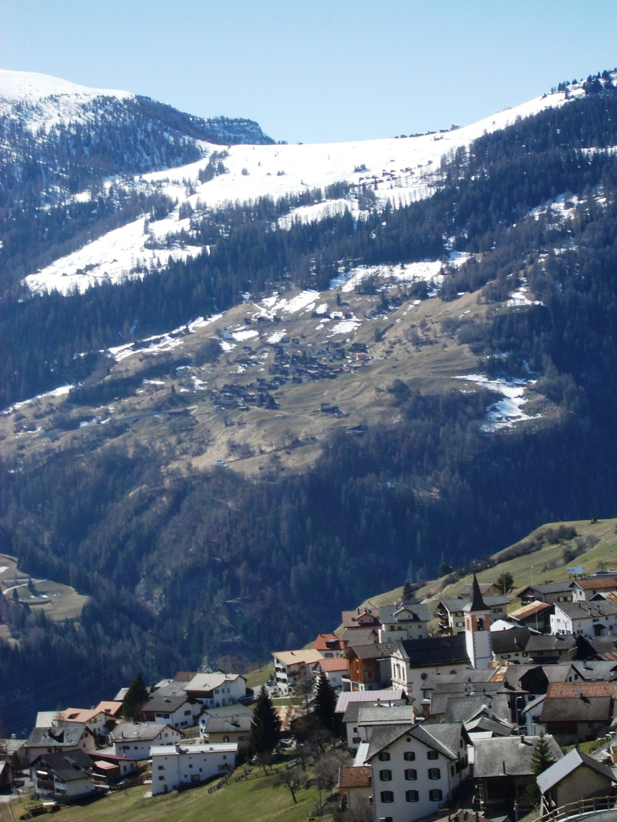 Lain GR, Switzerland, with Mutten on the background self-made, March 2007